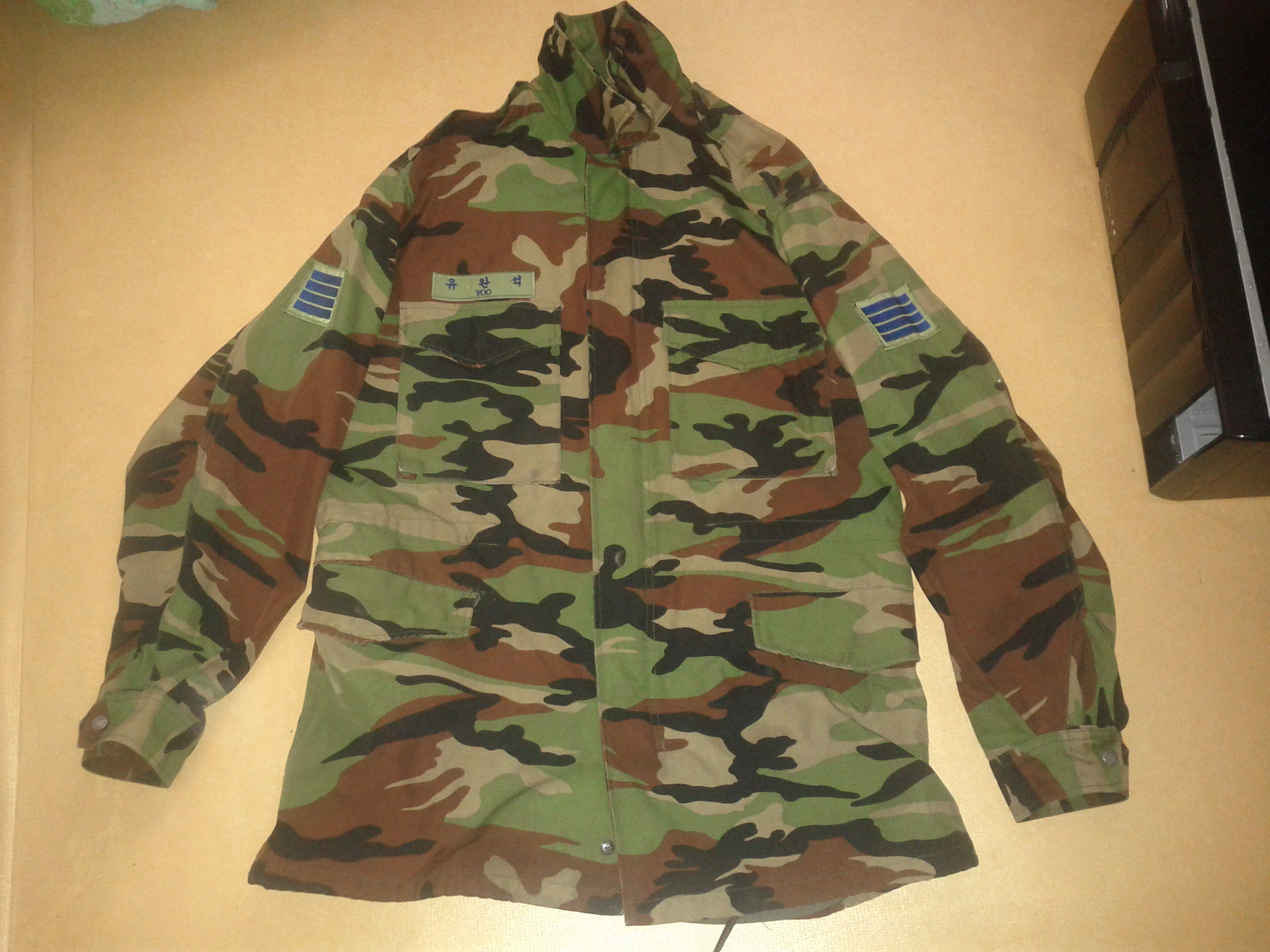 Republic of Korea Air Force's Airmen field jacket